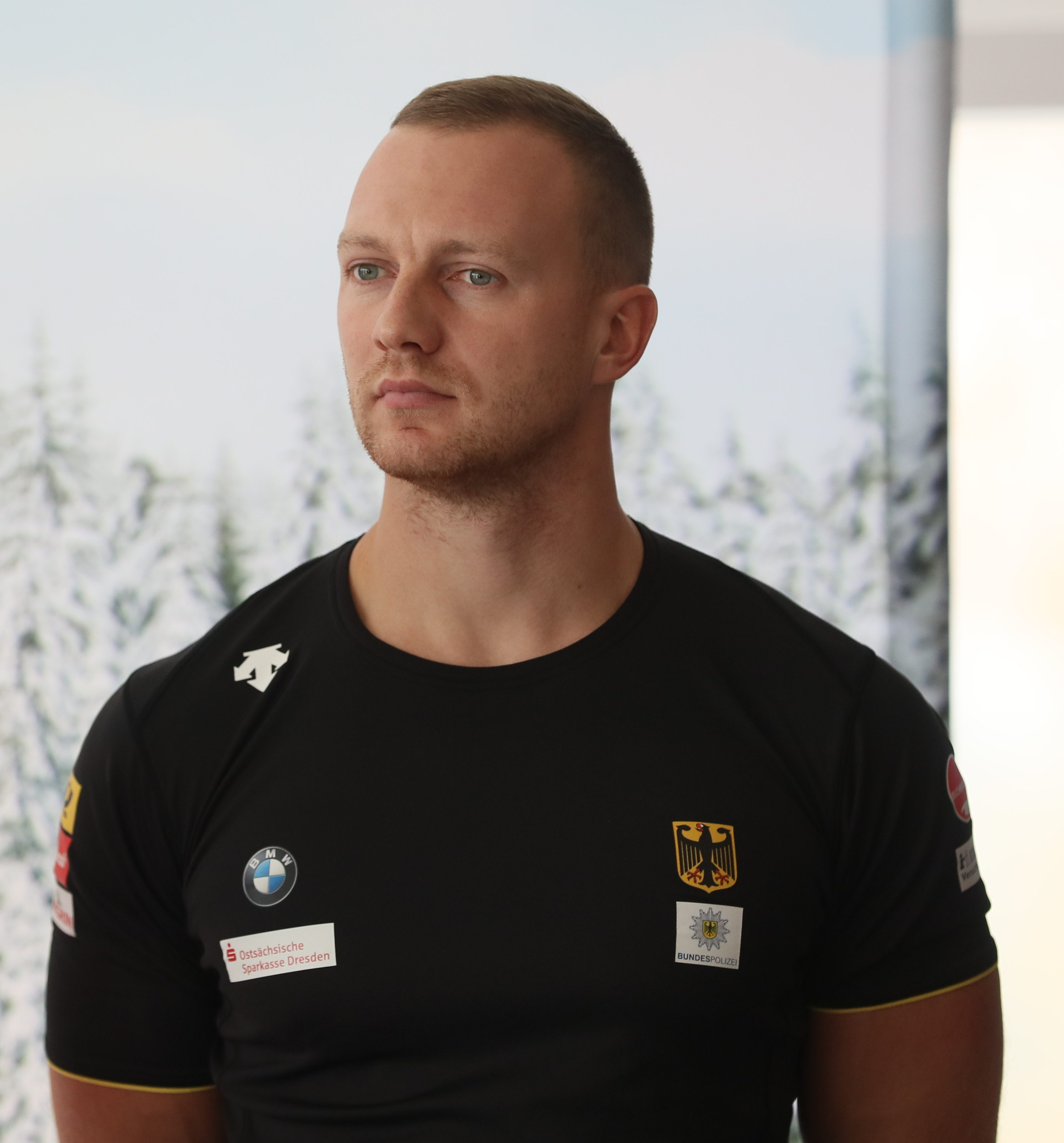 Press conference during the training week Bobsleigh and Skeleton 2018 in Altenberg